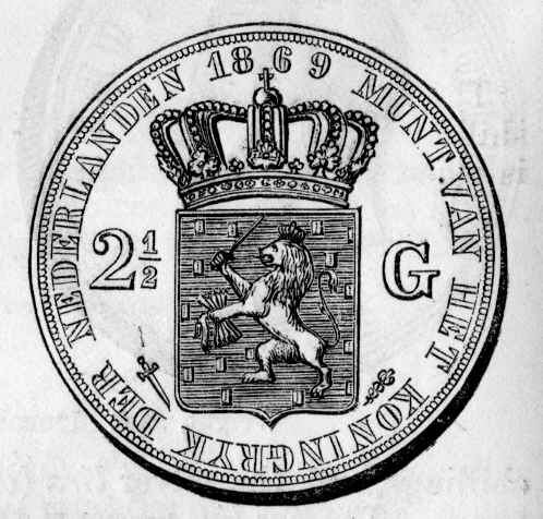 A Dutch silver 2 ½ guilder piece of 1869, with the head of William III. "Weight .804, fineness 944. Value 4s 3d." Reverse shown